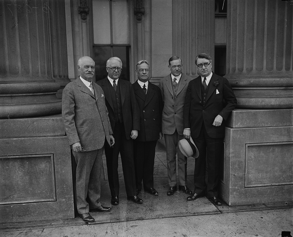 [Group; Hiram Johnson, center; Charles McNary, 2nd from right; Royal S. Copeland, right] .